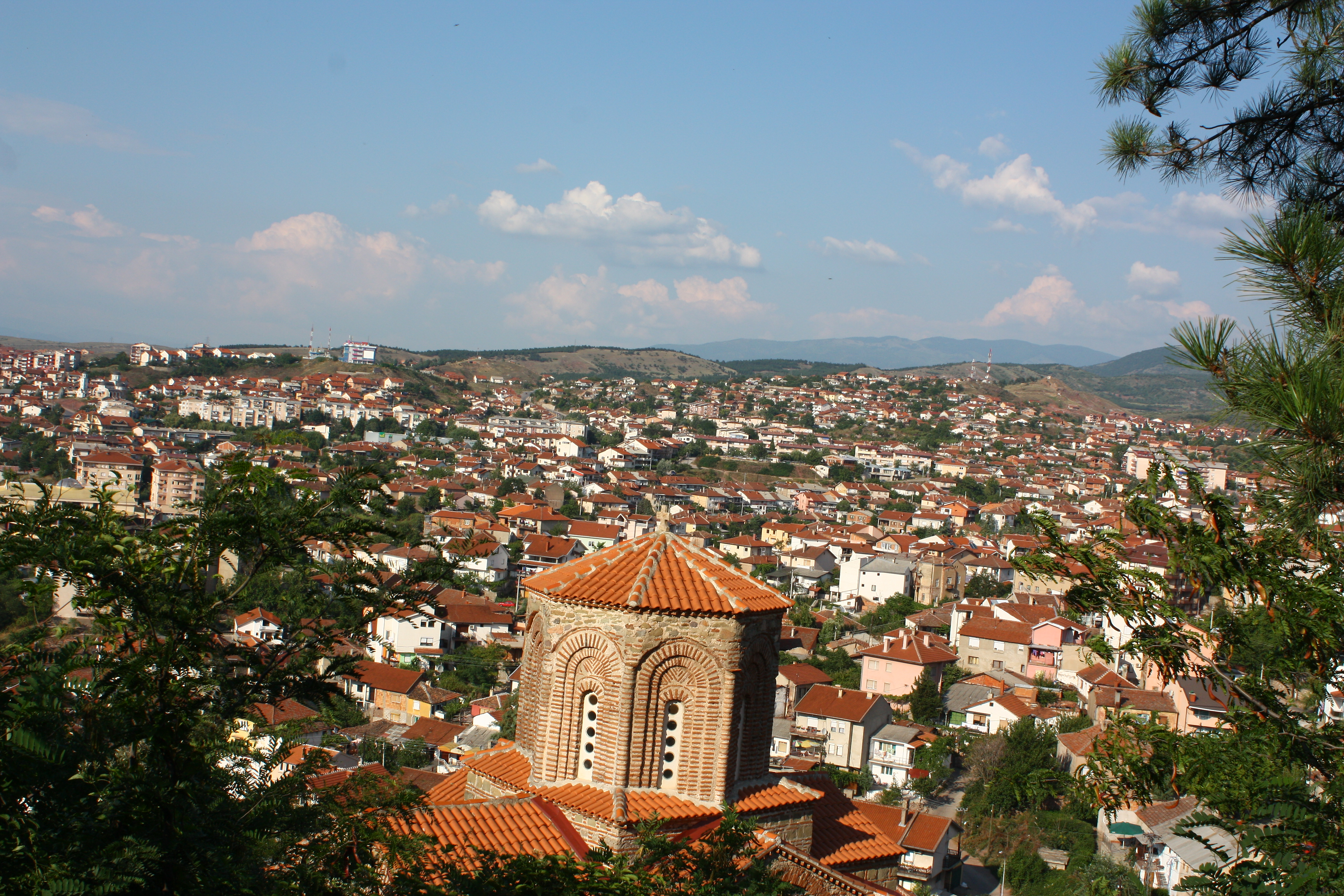 St. Michael the Archangel Church in Štip, Macedonia